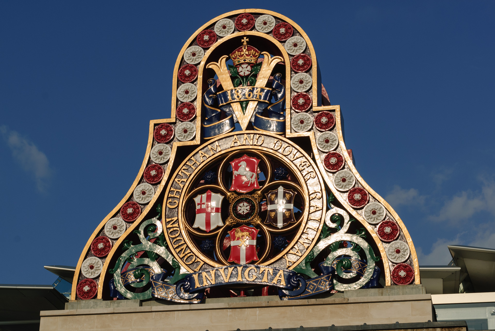 The badge of London Chatham and Dover Railway (LCDR)